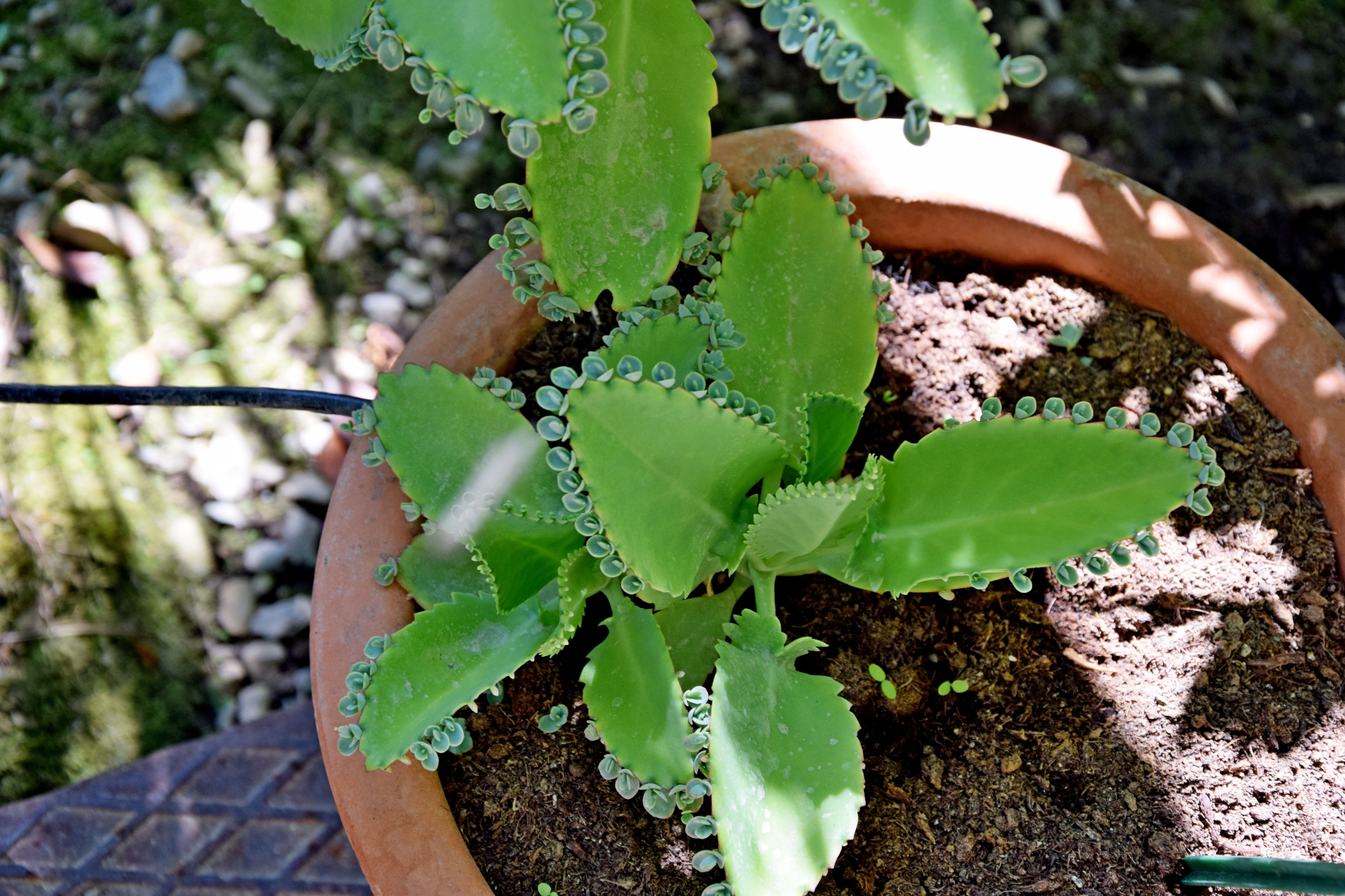 Bryophyllum pinnatum in Jardin aux Plantes parfumées la Bouichere, Limoux, Aude, France